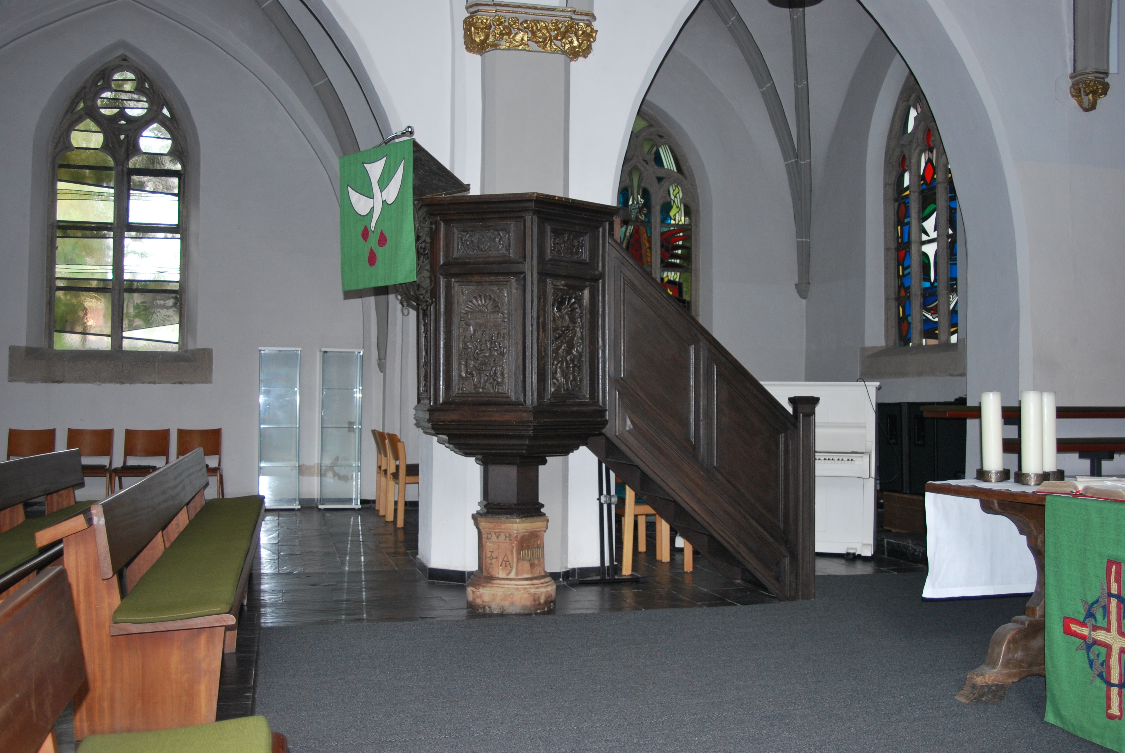 Protestant church Orsoy. Pulpit (16. century).